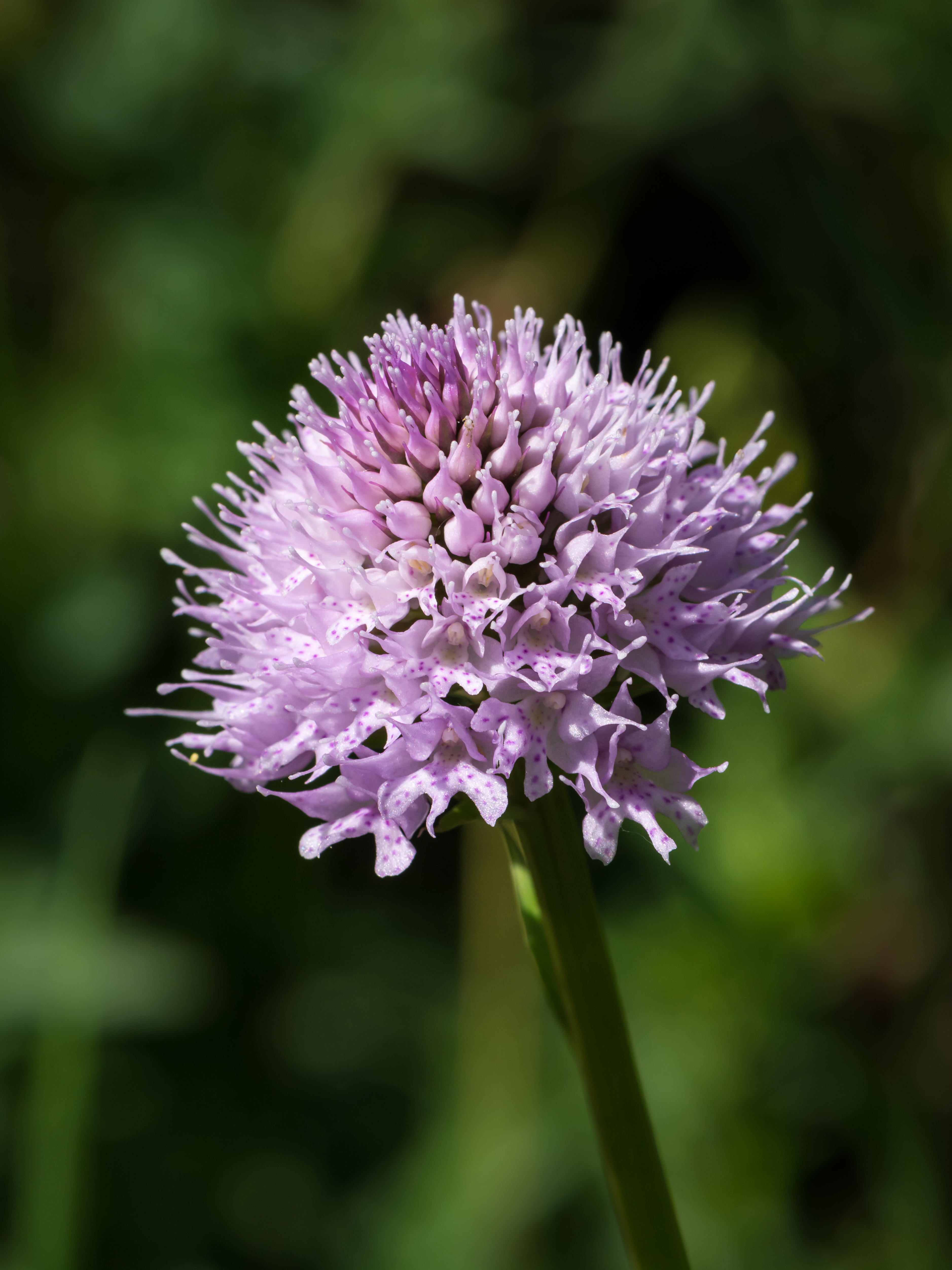 Traunsteinera globosa found on the Gemeindealpe Mitterbach, Lower Austria